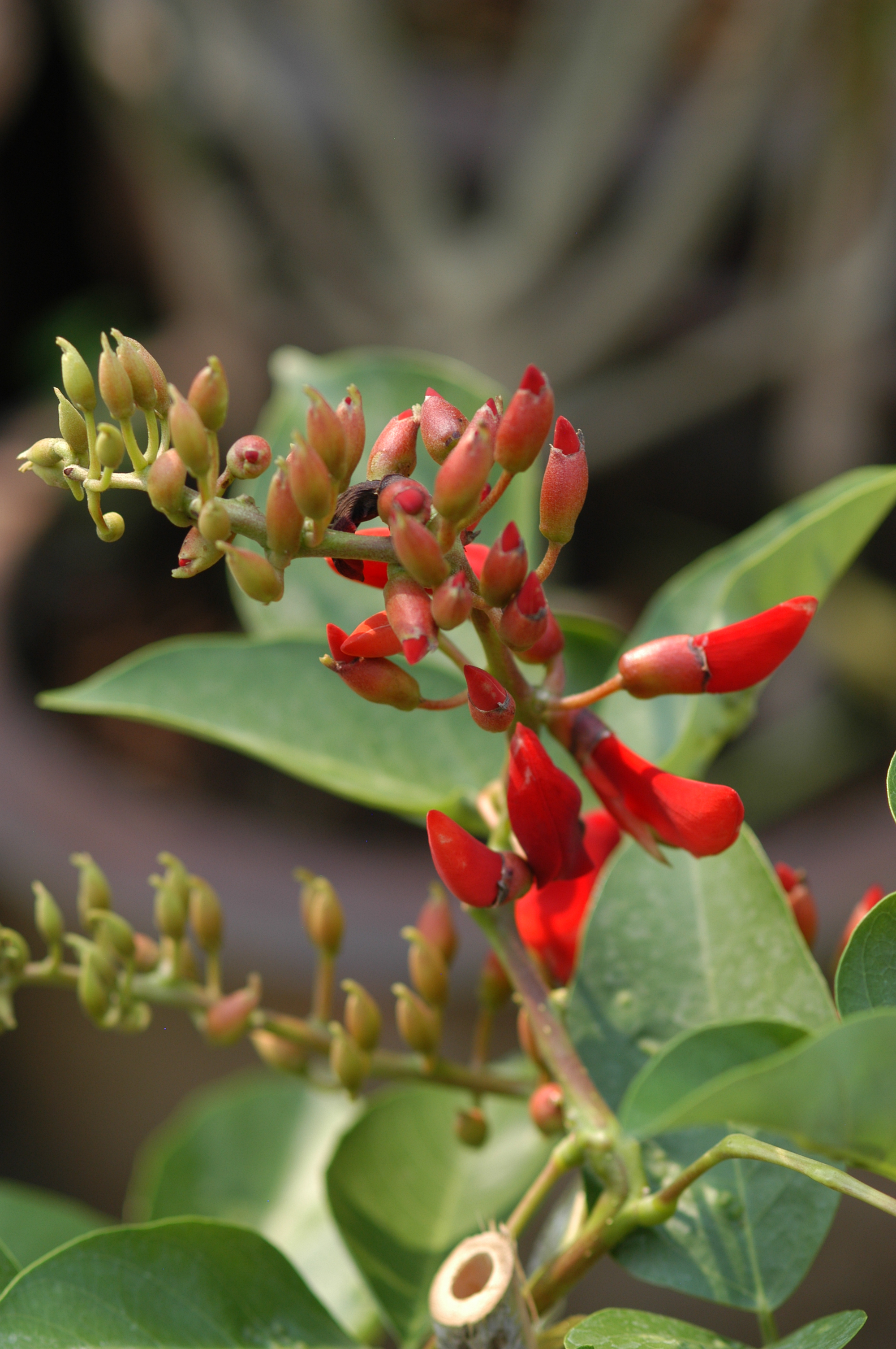 Erythrina fusca